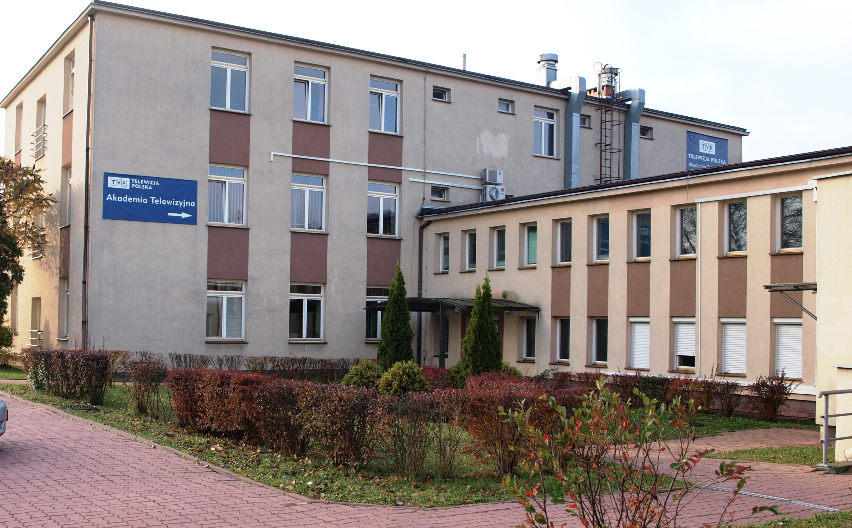 The building of the Academy of Television TVP - block R in the complex at 17 Woronicza